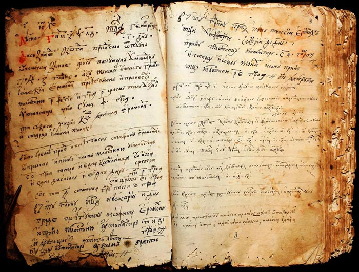 Zograf Codex, pages 2 - 3